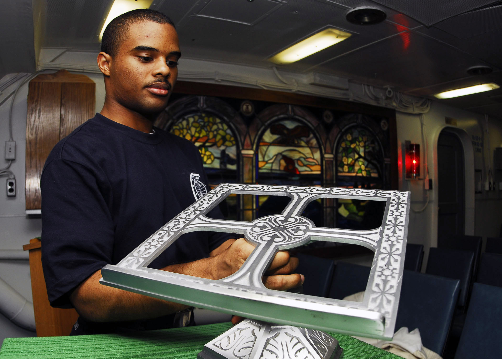 PACIFIC OCEAN (Aug. 3, 2007) - Airman Sigfrido Bobonis from command religious ministries department sets up the altar for Catholic divine services in the ships chapel aboard the Nimitz-class aircraft carrier USS John C. Stennis (CVN 74). Religious services for numerous denominations are provided on a daily basis to crew members aboard the ship. The John C. Stennis Carrier Strike Group is on a regularly scheduled deployment to promote peace, regional cooperation and stability. U.S. Navy photo by Mass Communication Specialist 3rd Richard R. Waite (RELEASED)